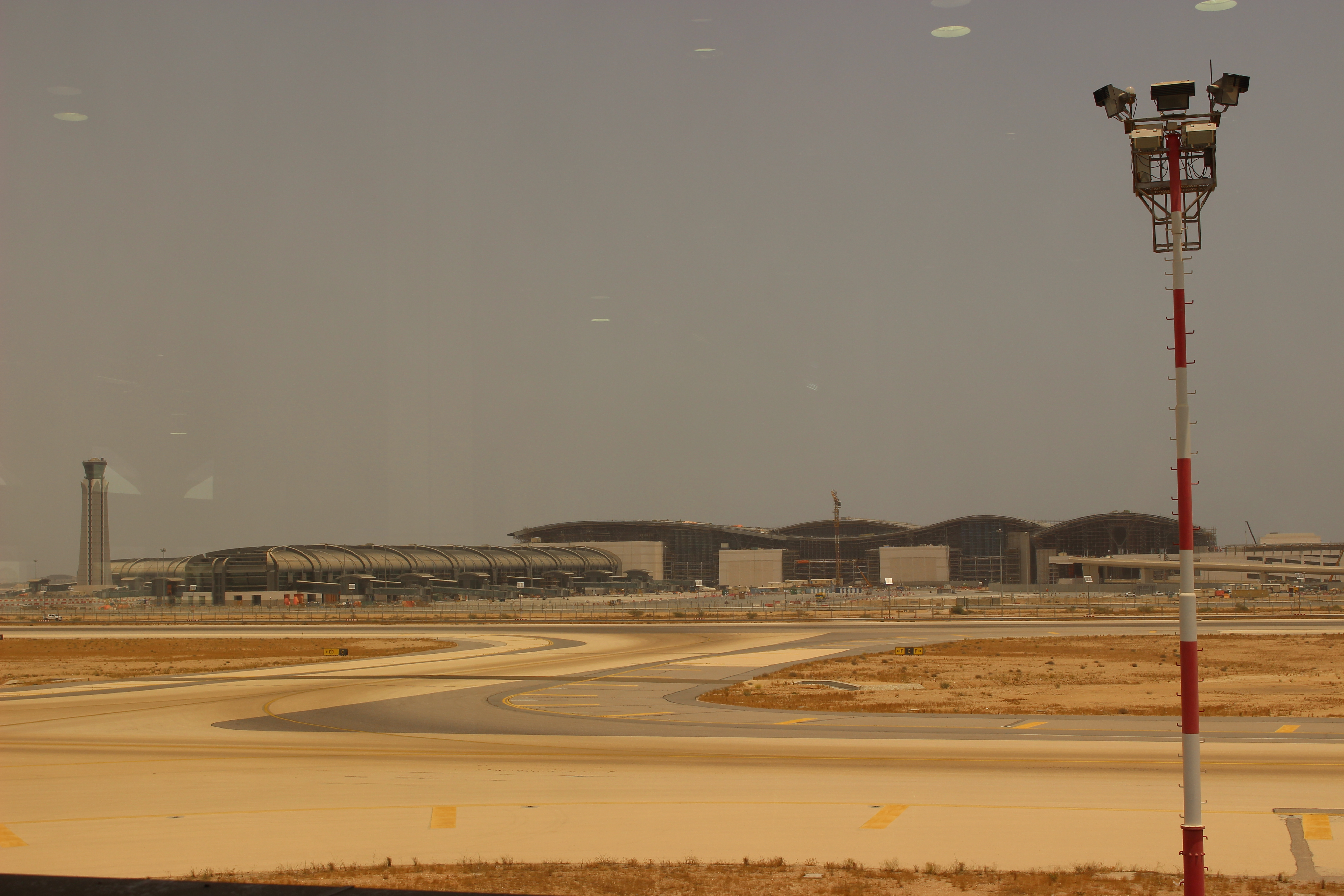 New airport under construction in august 2016